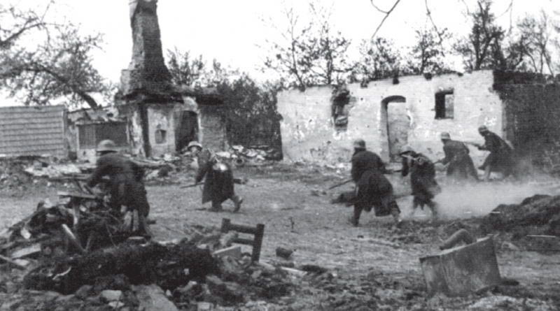 Bulgarians in the battle of the Transdanubian hills in Hungary.